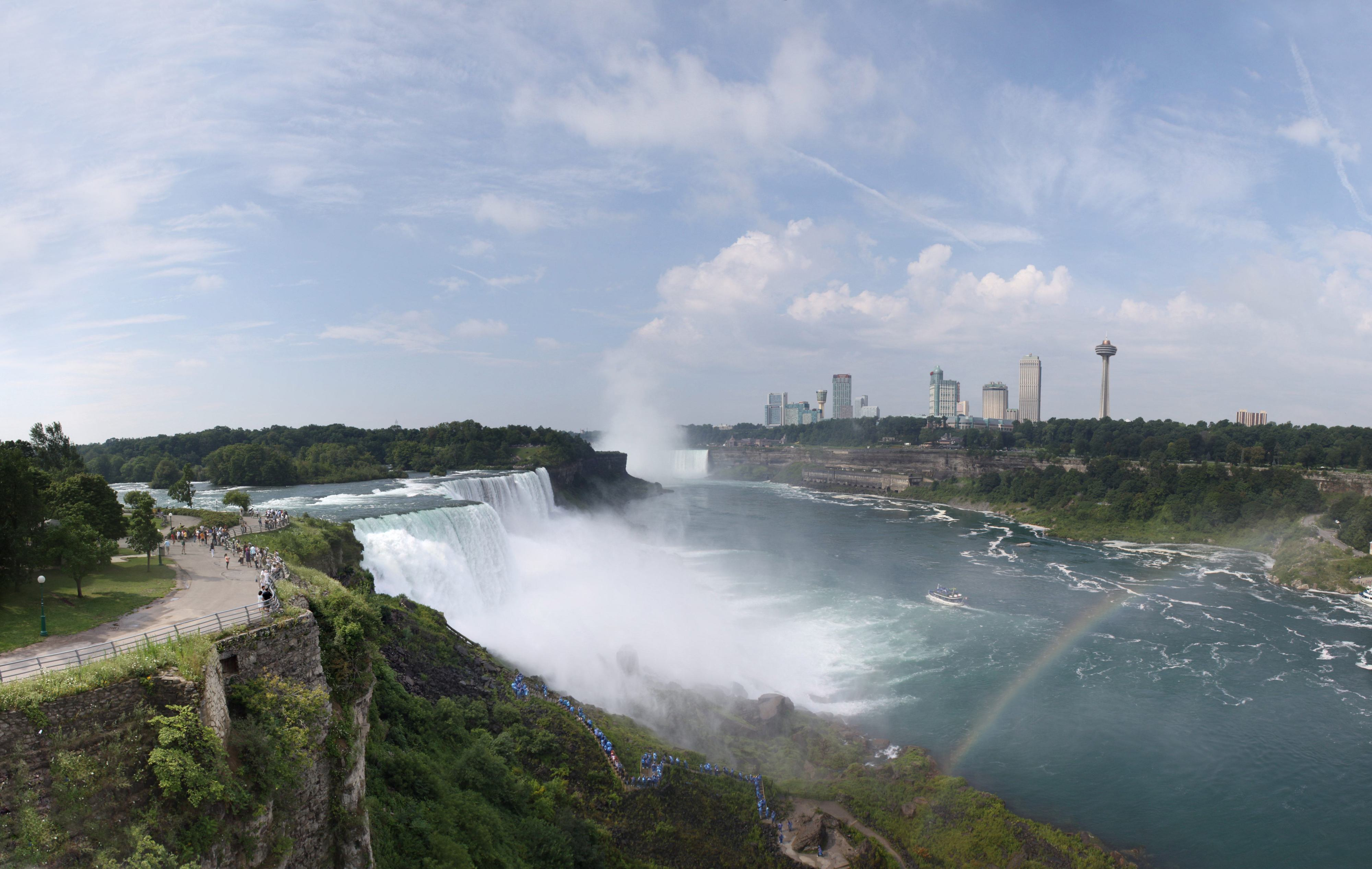 Waterfalls in Niagara Falls